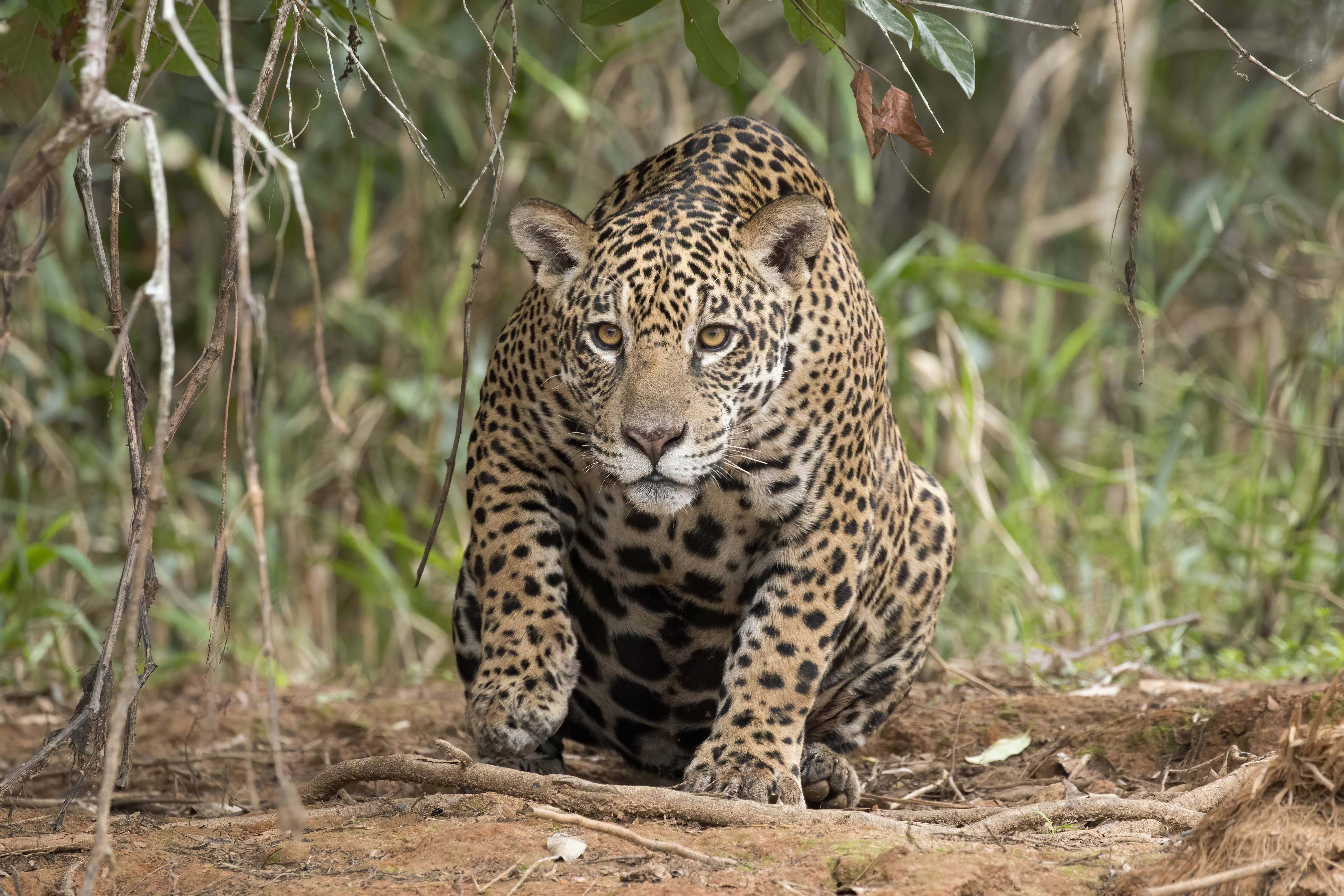 Jaguar (Panthera onca palustris) female, Piquiri River, the Pantanal, Brazil